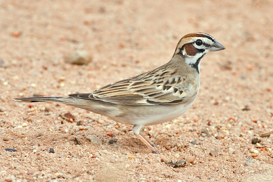 Lark Sparrow at Amado, Arizona